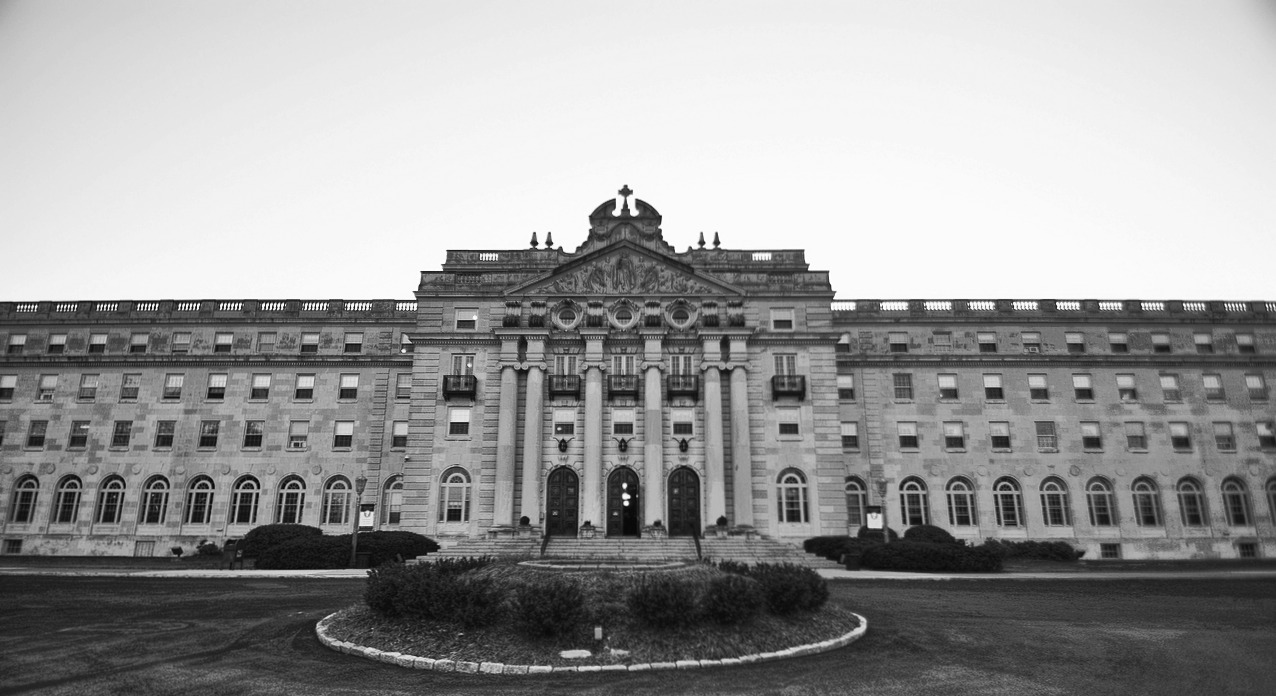 Founded in 1791, St. Mary's Seminary & University in Baltimore is the first Catholic seminary established in the United States. For over two hundred years, St. Mary's has been owned and operated by the Sulpician Fathers, a community of diocesan priests dedicated to the formation of priests. In 1805, St. Mary's was chartered as a civil university in Maryland, and in 1822, Pope Pius VII established the seminary the country's first ecclesiastical (pontifical) faculty with the right to grant degrees in the name of the Holy See. The seminary continues to offer the pontifical STB and STL degrees for all qualified students. St. Mary's on Paca StreetThe original St. Mary's Seminary was first established in Baltimore on Paca Street. Its historic neo-gothic chapel designed by Maximilian Godefroy remains at the original site. It is open for visitors and is adjacent to the Mother Seton House where St. Elizabeth Ann Seton lived while in Baltimore. St. Mary's Roland ParkIn 1929, St. Mary's Seminary moved to its present location at Roland Park in Baltimore. Designed by Maginnis and Walsh of Boston, the seminary's classic entrance and massive facade are a recognized landmark in the city. Inside the main doors stands the marble statue of Mary known as the Sedes Sapientiae, Our Lady Seat of Wisdom, patroness of the seminary. Further on is the Main Chapel, designed in marble and oak, with its Casavant pipe organ and stained glass windows from Paris. It is a majestic, elegant, and quiet place at the very heart and center of St. Mary's. St. Mary's Seminary and University is literally the birthplace of seminary formation in the United States. Embodying the values of the Sulpician tradition, St. Mary's offers the very best programs possible in preparing the next generation of diocesan priests.